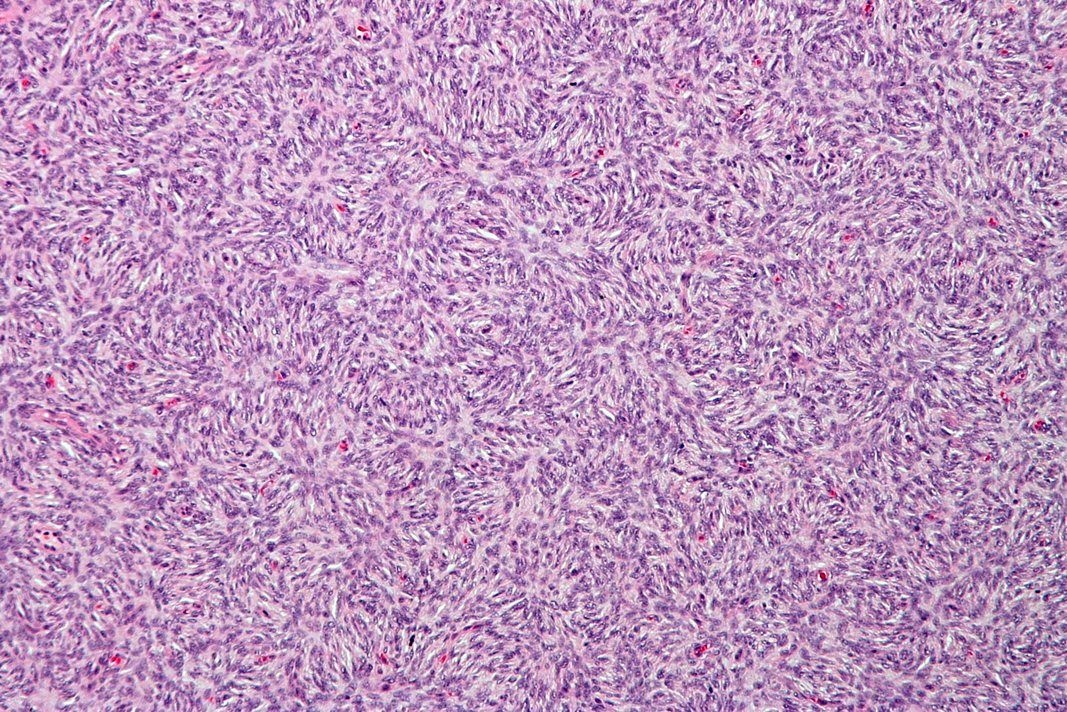 Intermediate magnification micrograph of the storiform pattern in a case of dermatofibrosarcoma protuberans. H&E stain. The storiform pattern can be seen in a number of tumours, including solitary fibrous tumour, pleomorphic undifferentiated sarcoma (malignant fibrous histiocytoma) and dermatofibroma. Related images Intermed. mag. High mag. Very high mag.